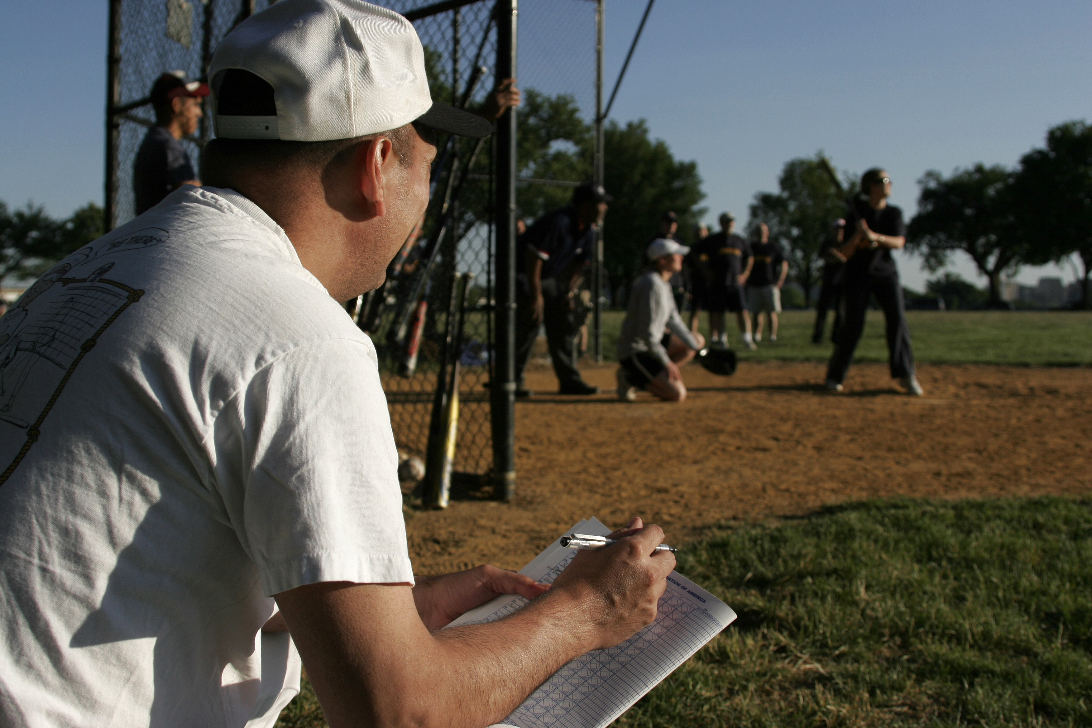 WASHINGTON � Hard Corps softball player Ruperto Rubio, a 38-year-old combat photographer and Conroe, Texas native, watches the pitch count from the dugout area during the bottom of the fourth inning. The Justice Department�s Untouchables beat the Headquarters Battalion team 12-9 May 23 at West Potomac Park.